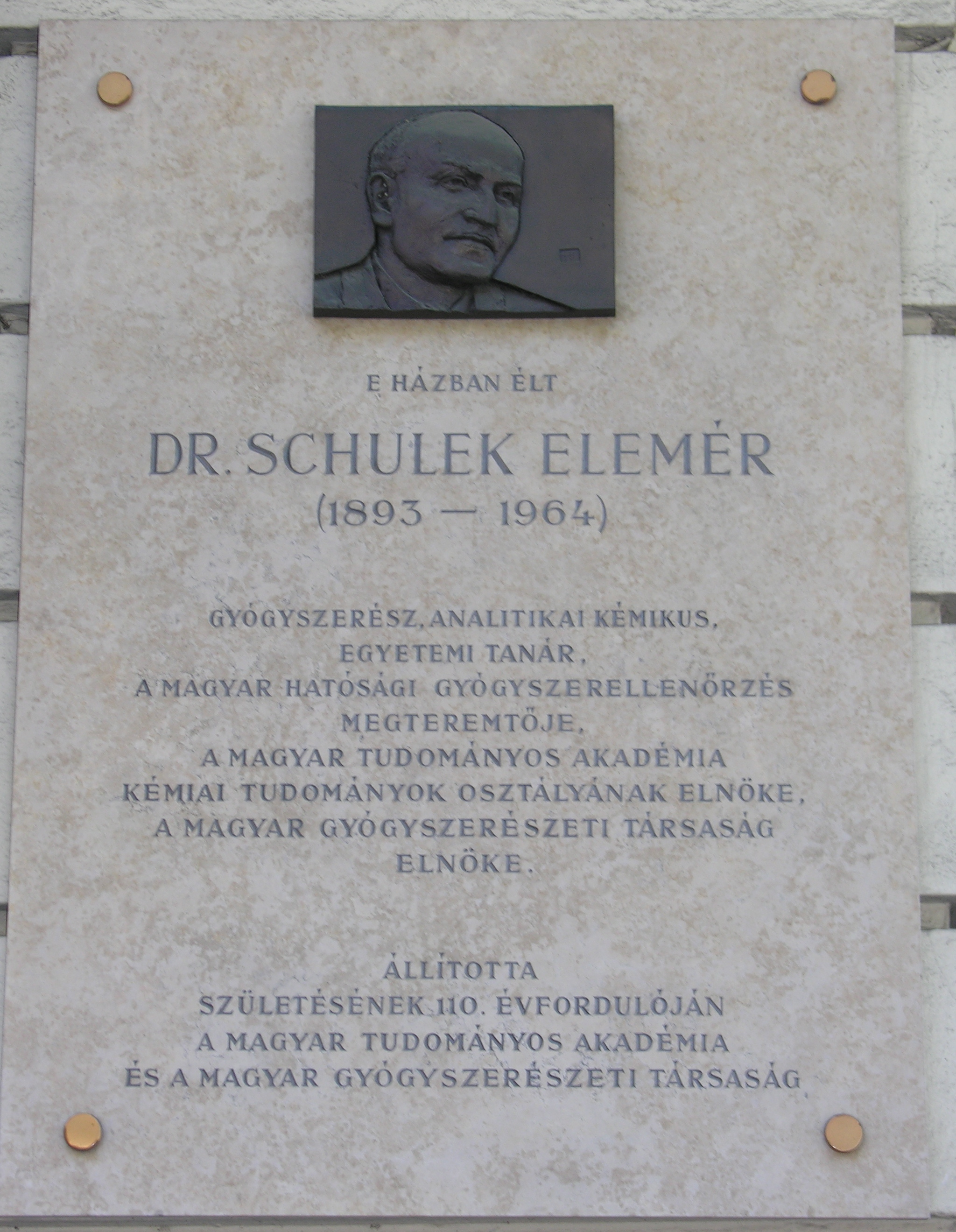 Commemorative plaque of Elemér Schulek in Budapest District XI, Bartók Béla Street No 10-12